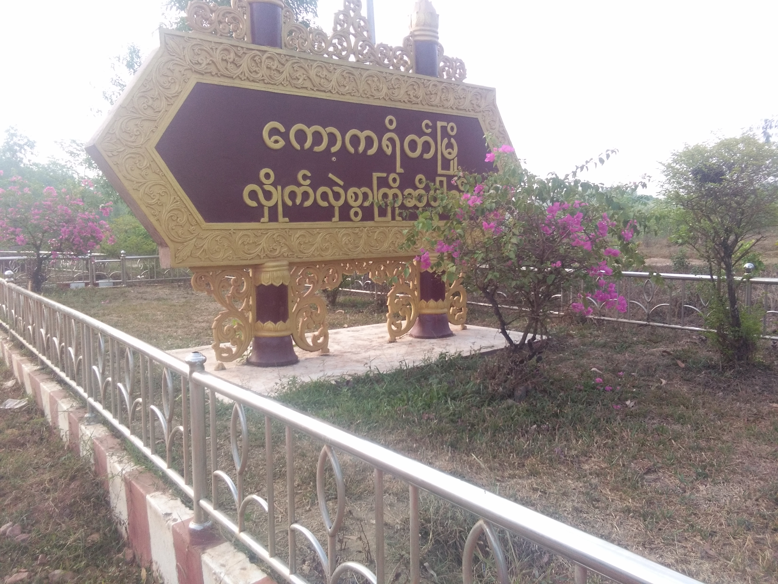 Warmly welcome signboard of Kawkareik